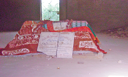 Hosh Mohammad sheedi was martyred in Battle of Dubba (10km away from hyderabad)